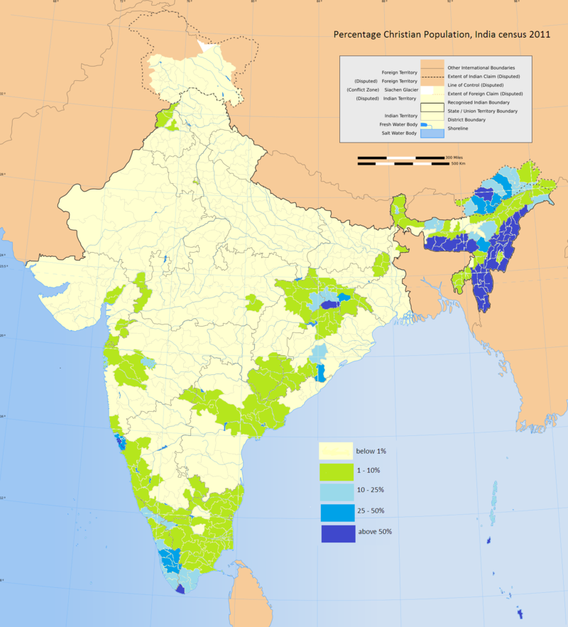 District wise Christian population percentage, India census 2011.